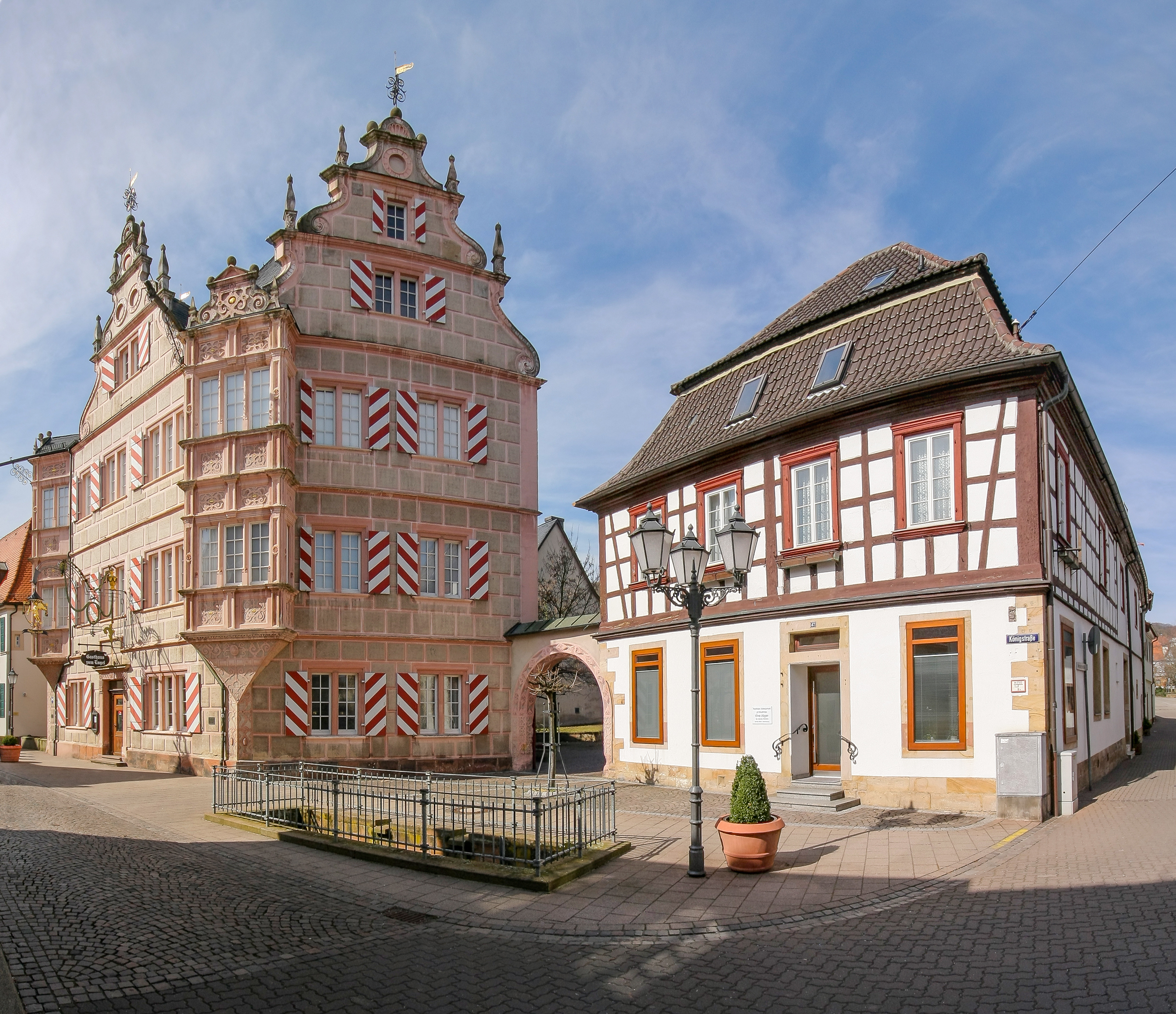 „Zum Engel“ Inn and a half-timbered house in Bad Bergzabern NOTE: This image is a panorama consisting of 2 frames that were merged or stitched in Hugin. As a result, this image necessarily underwent some form of digital manipulation. These manipulations may include blending, blurring, cloning, and colour and perspective adjustments. As a result of these adjustments, the image content may be slightly different from reality at the points where multiple images were combined. This manipulation is often required due to lens, perspective, and parallax distortions.